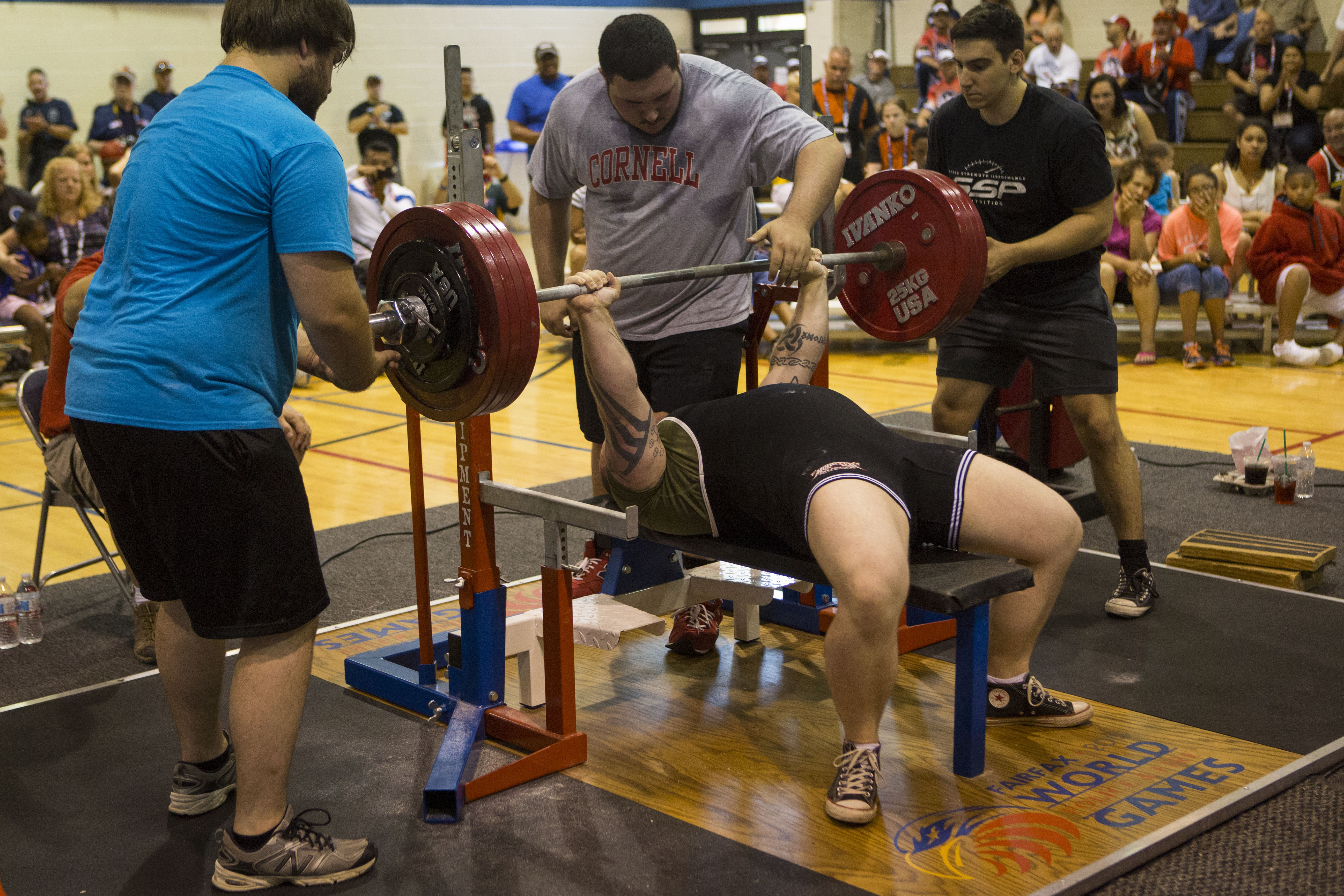 Border Patrol Agent Matt Phelps of Bonners Ferry Idaho completes his successful attempt for a World Record bench press of 551lbs at the World Police and Fire Games in Herndon Virginia. Photo by James Tourtellotte